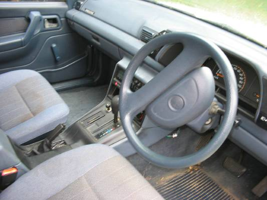 Interior of a 1993 Holden VP II Commodore Executive sedan.